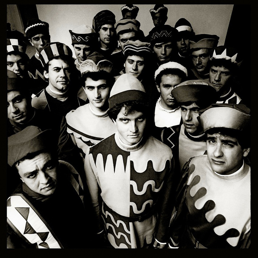 Photo - Black and White - Augusto De Luca photographer